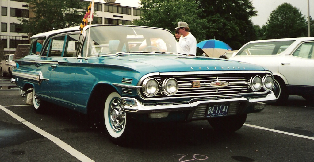 1960 Chevrolet Nomad station wagon I photographed in Charlotte, North Carolina in June 1999.